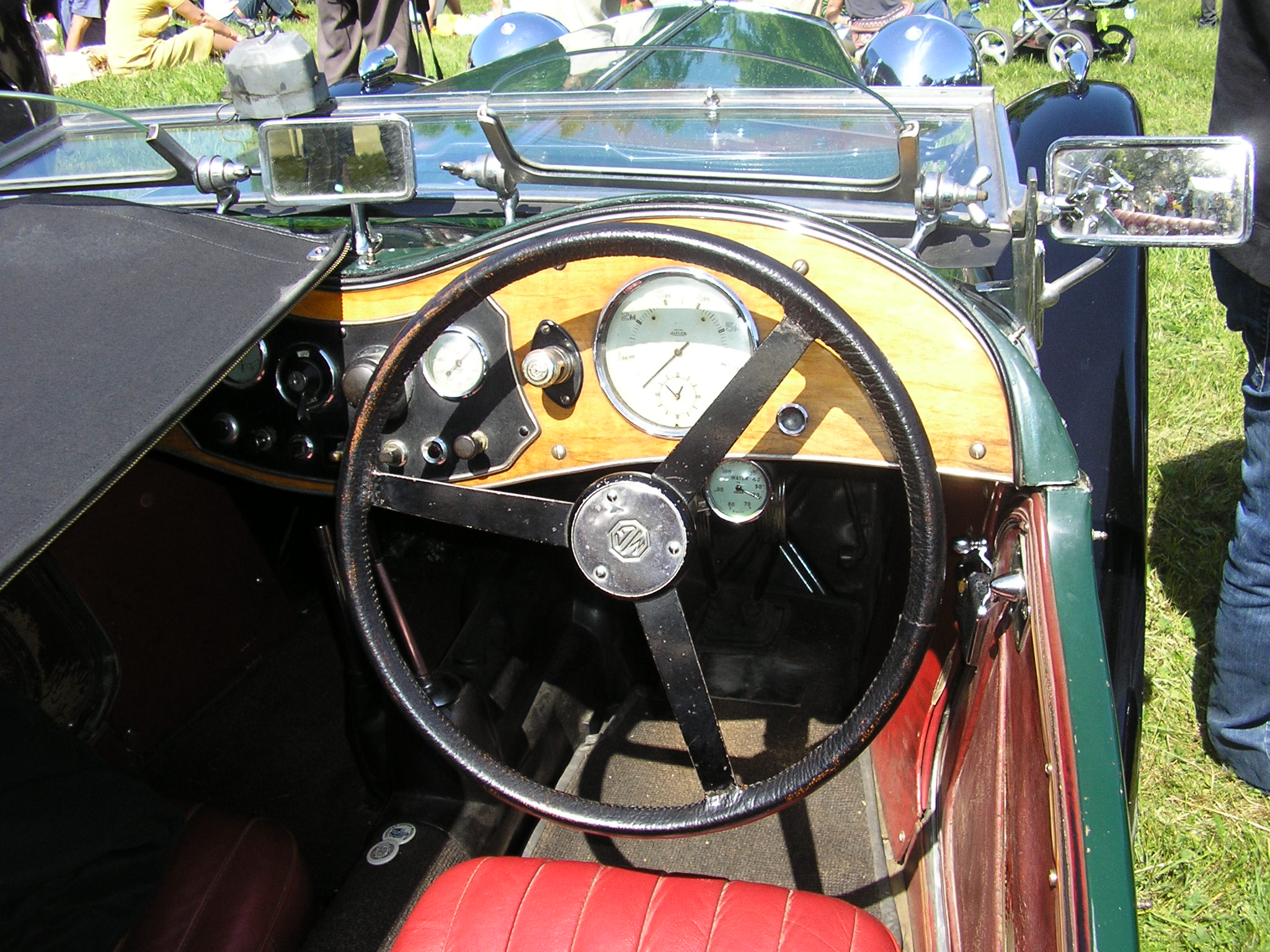 Interior in 1948 MG